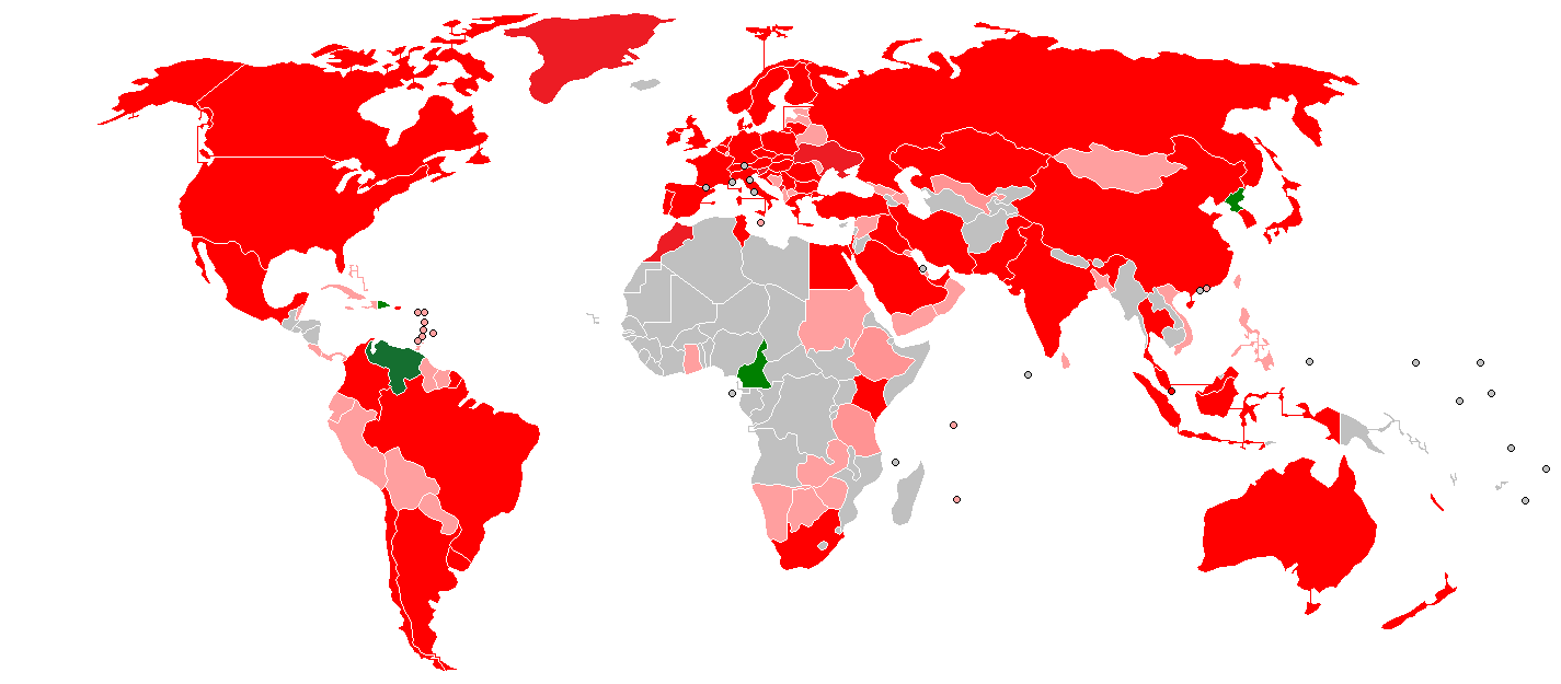 Metre Convention signatories: Red - member states Light Pink - Associates Dark Green - Former member states